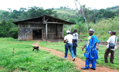 Bafut. NorthWest Region - Cameroon.